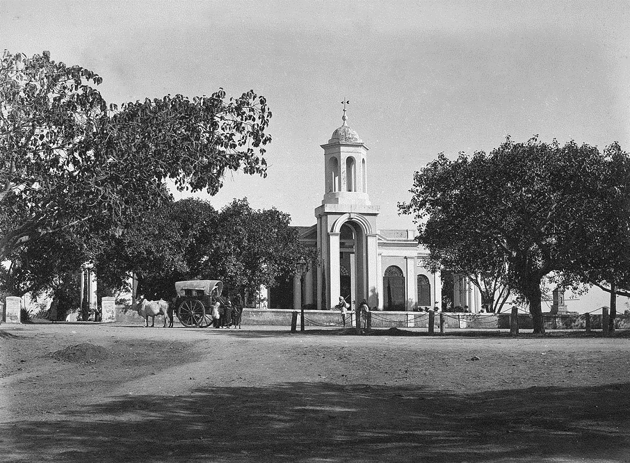 own work